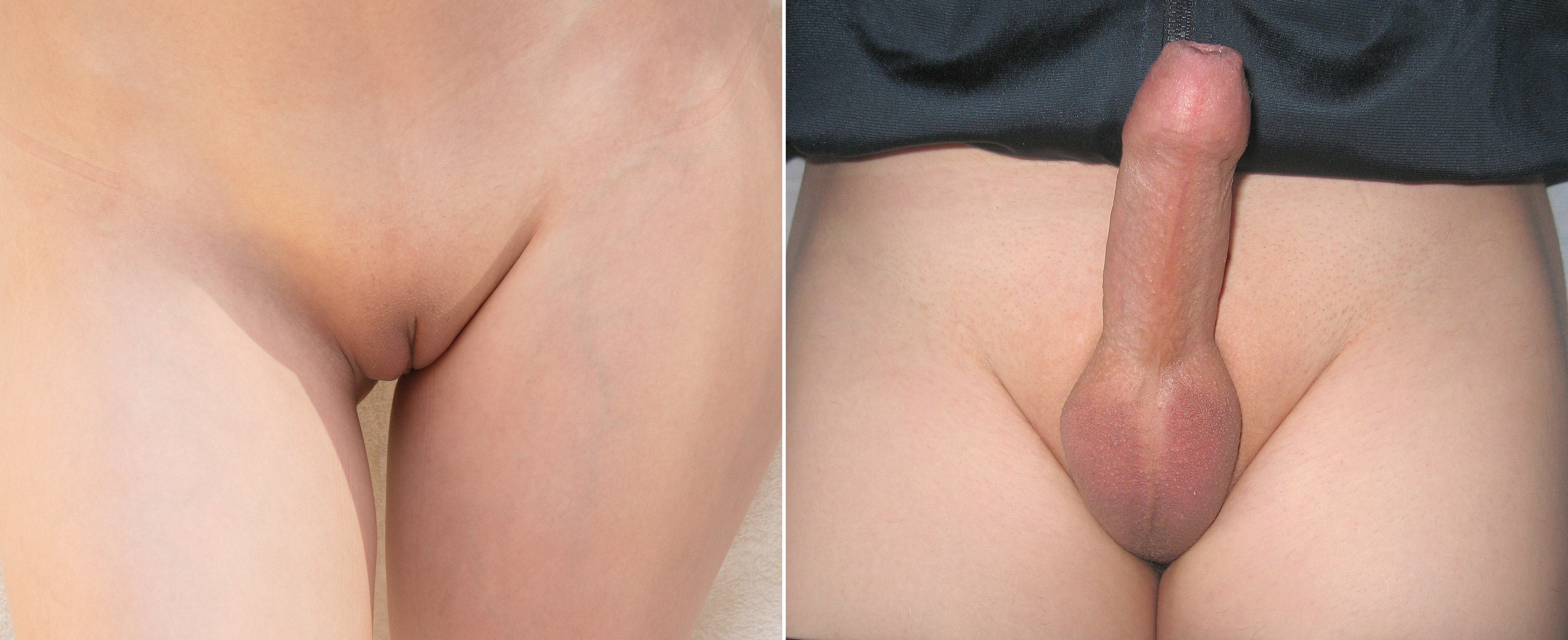 Shaved genitalia of both sexes (female standing, male lying on bed). The female's labia and the male's scrotum are now clearly visible due to the hairlessness. The male's penis (uncircumcised, partially erect) is completely hairless too. Original image of the female genitalia